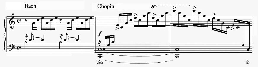 Comparison of Prelude No.1 in C major (BWV 846) with Chopin's Étude Op. 10, No. 1 (alternative version of File:Bach-Chopin-Vergleich.png (section))